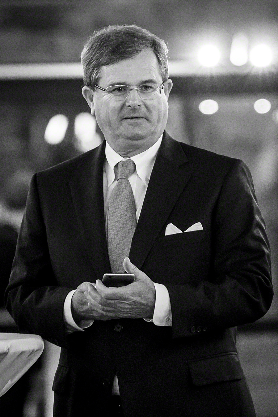 Carl Otto Løvenskiold at Governor Øystein Olsen's annual address in February 2016